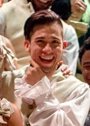 Jon Rua, cropped from cast photograph. Verbatim from source: “The President greets the cast and crew of ‘Hamilton’ after seeing the play with his daughters at the Richard Rodgers Theatre in New York City.” (Official White House Photo by Pete Souza)